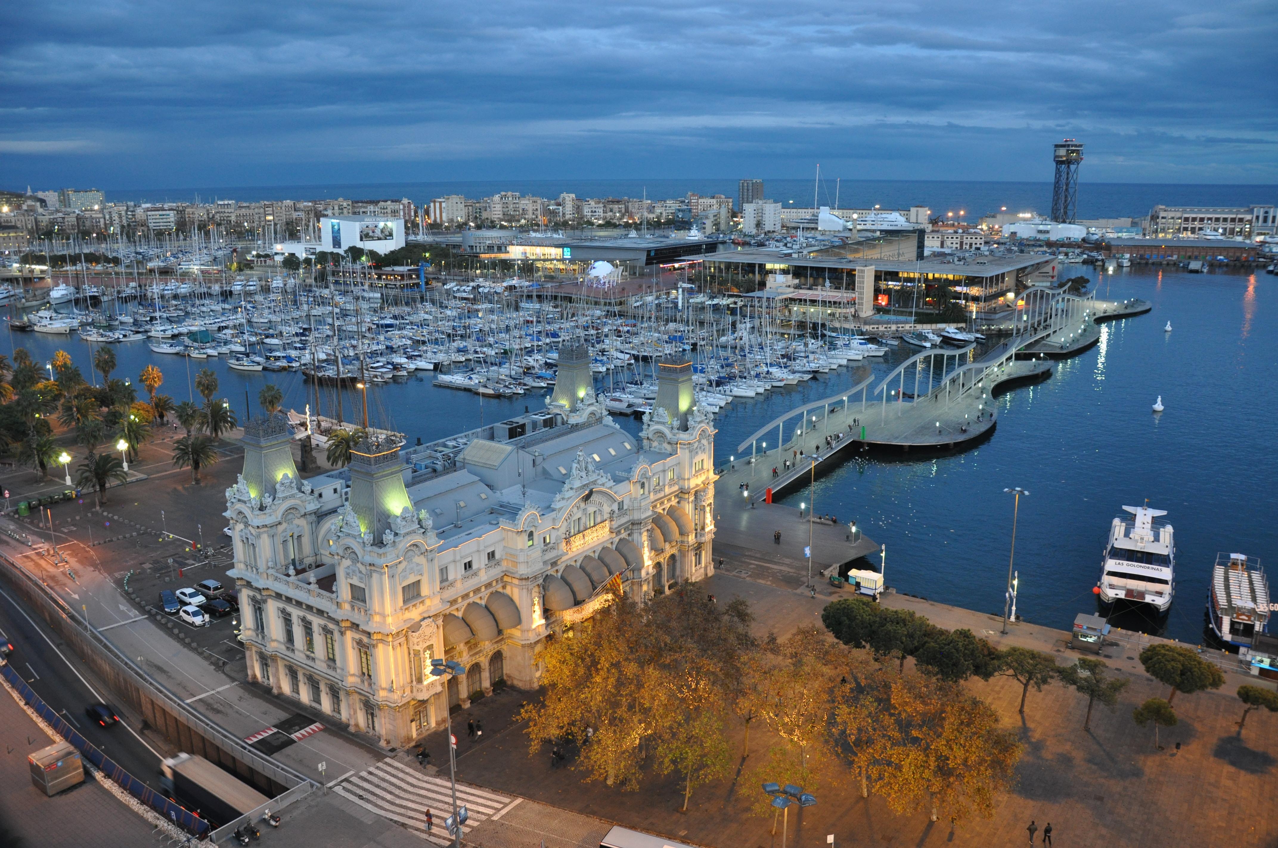 The Port of Barcelona has a 2000-year history and a great contemporary commercial importance. It is Europe's ninth largest container port, with a trade volume of 2.3 million TEU's in 2006. The port is managed by the Port Authority of Barcelona. Its 7.86 km2 (3 sq mi) are divided into three zones: Port Vell (the Old Port), the commercial port and the logistics port (Barcelona Free Port). The port is undergoing an enlargement that will double its size thanks to diverting the mouth of the Llobregat river 2 km to the south. The Port Vell area also houses the Maremagnum (a commercial mall), a multiplex cinema, the IMAX Port Vell and an aquarium